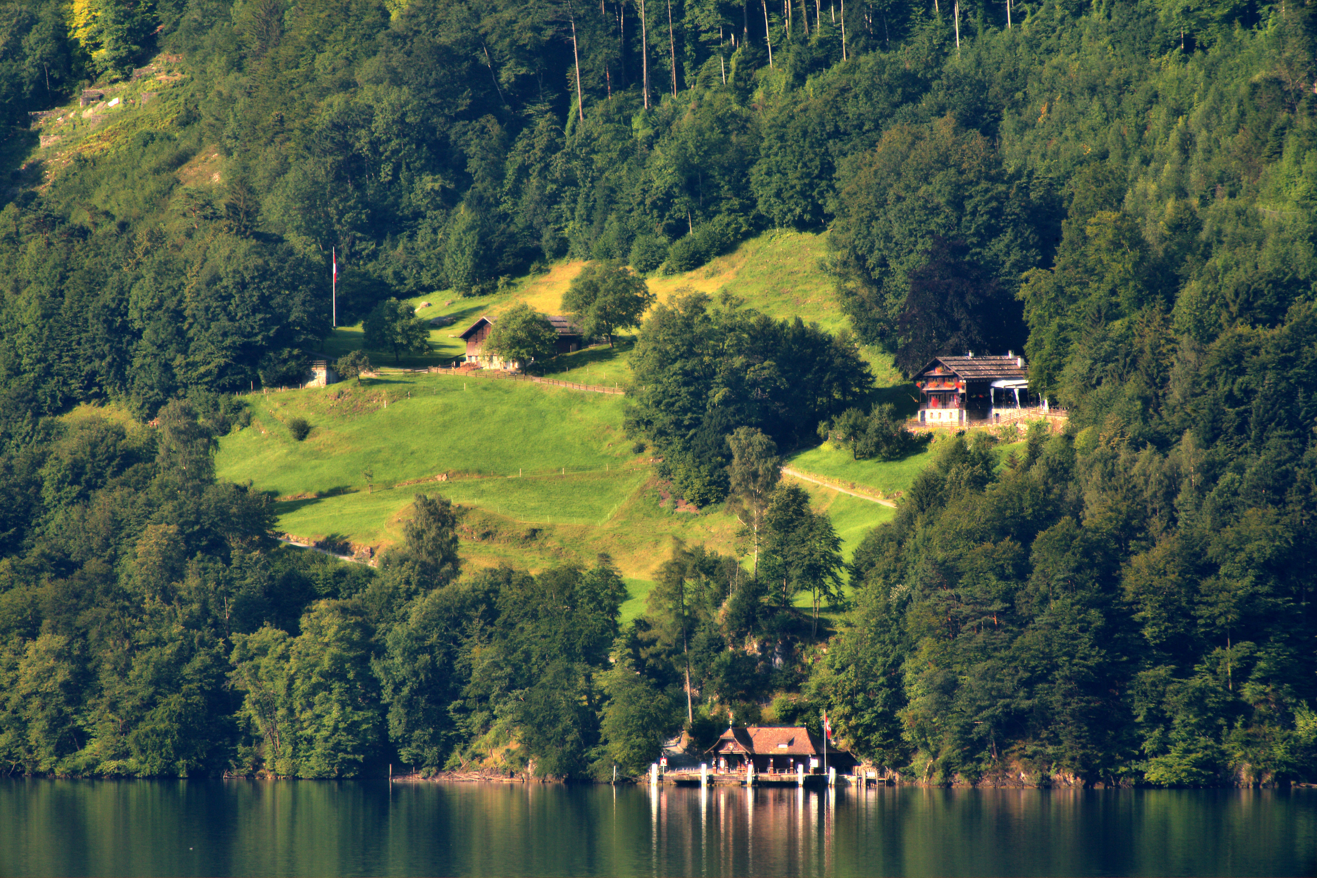 Rütli meadow seen from Brunnen